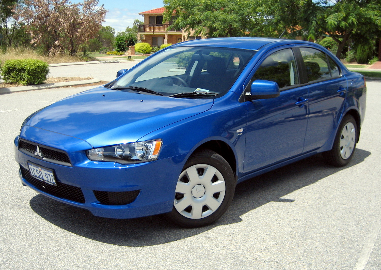 A 2008 Mitsubishi Lancer ES